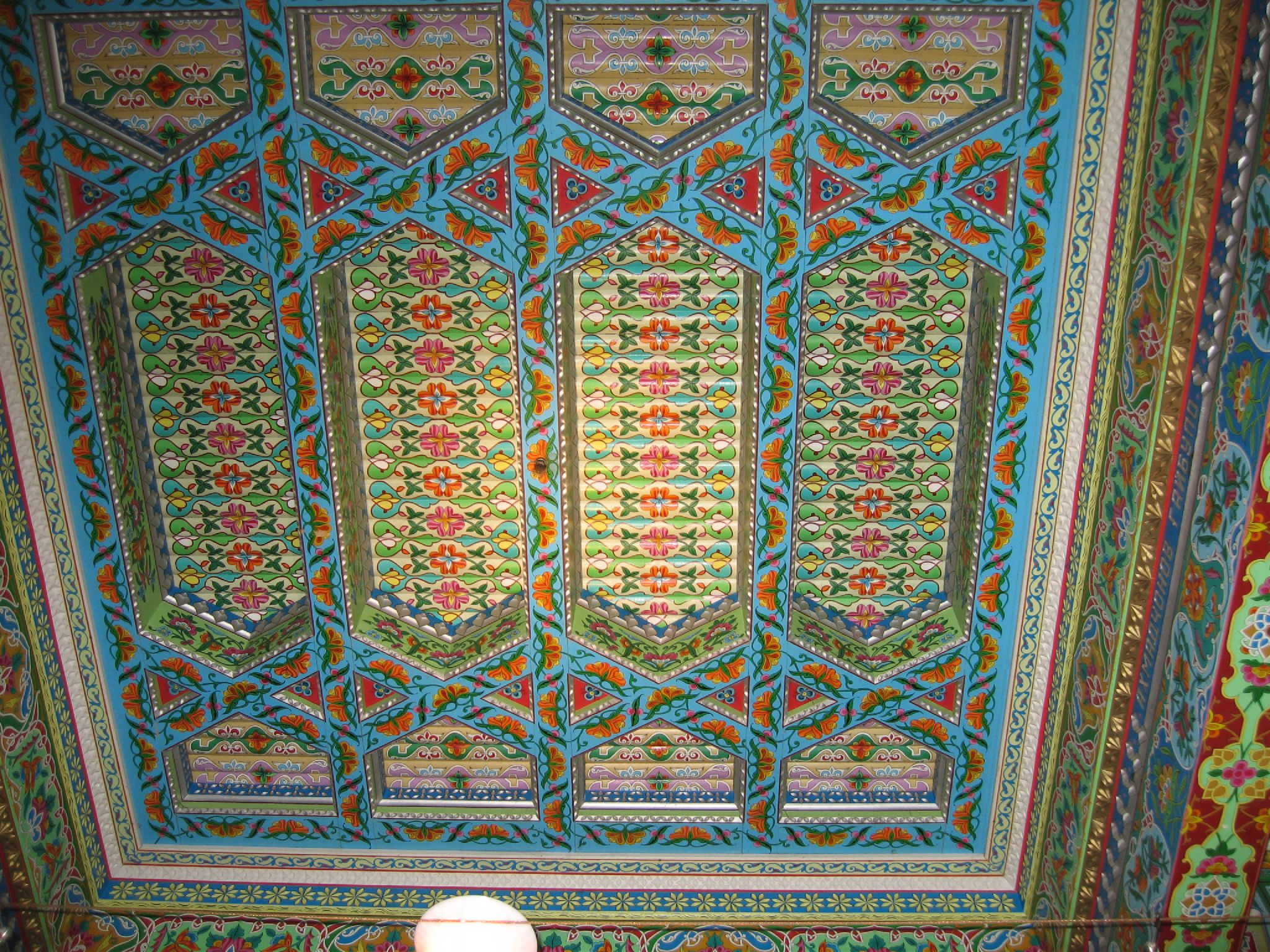 Dushanbe Tea House, Boulder, Colorado. Detail from ceiling.